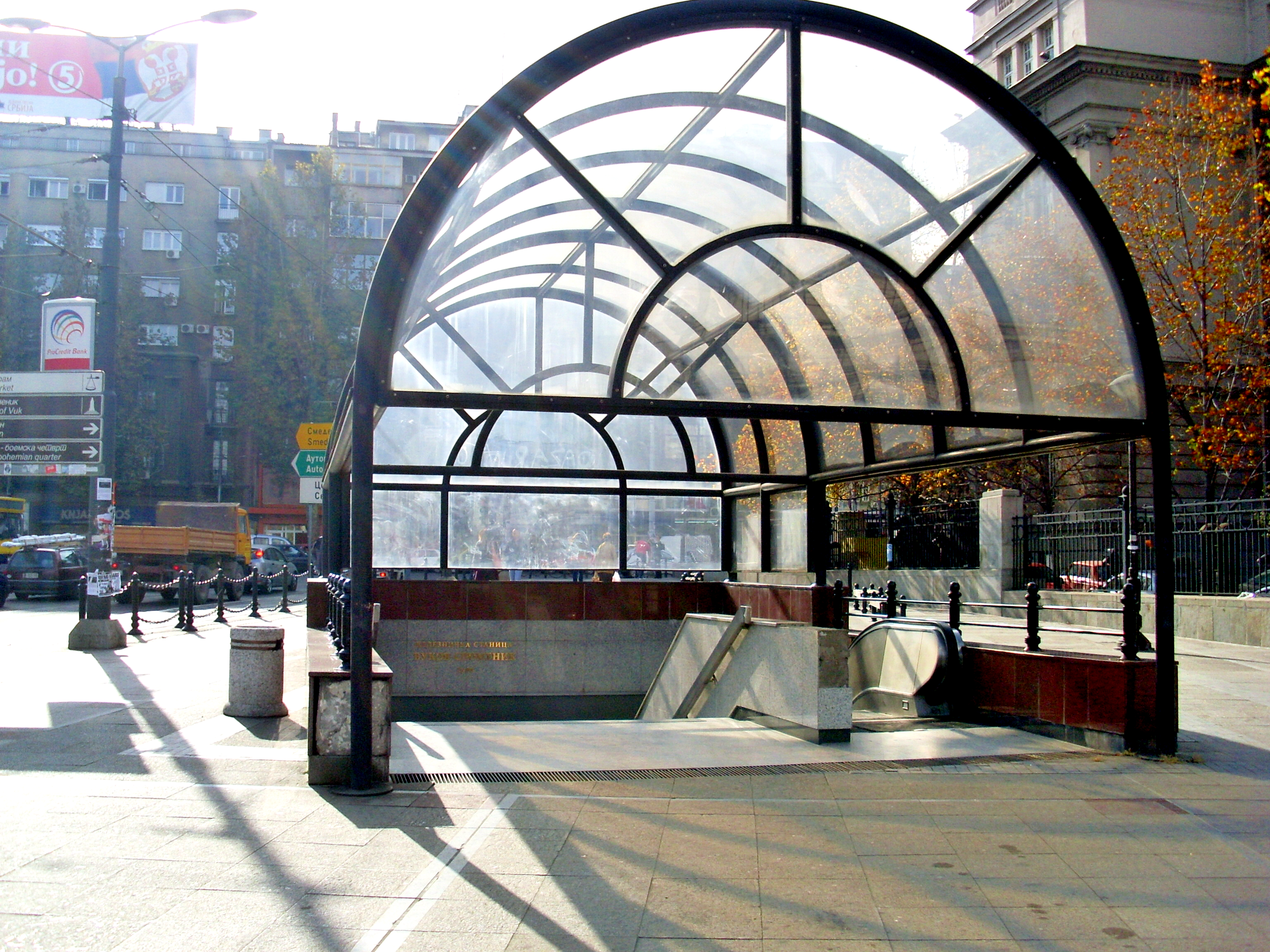 Entry to the Vukov spomenik underground station in Belgrade